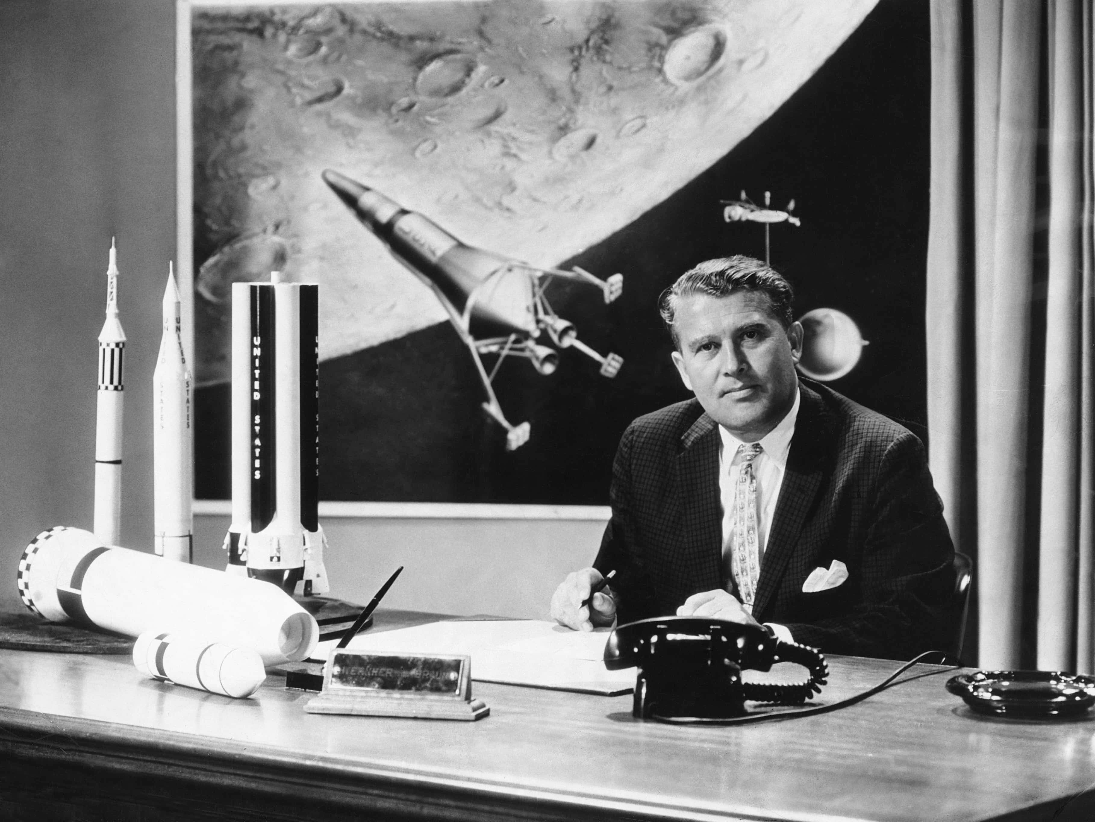 This is a photograph of Dr. Von Braun at work at his desk in Huntsville.